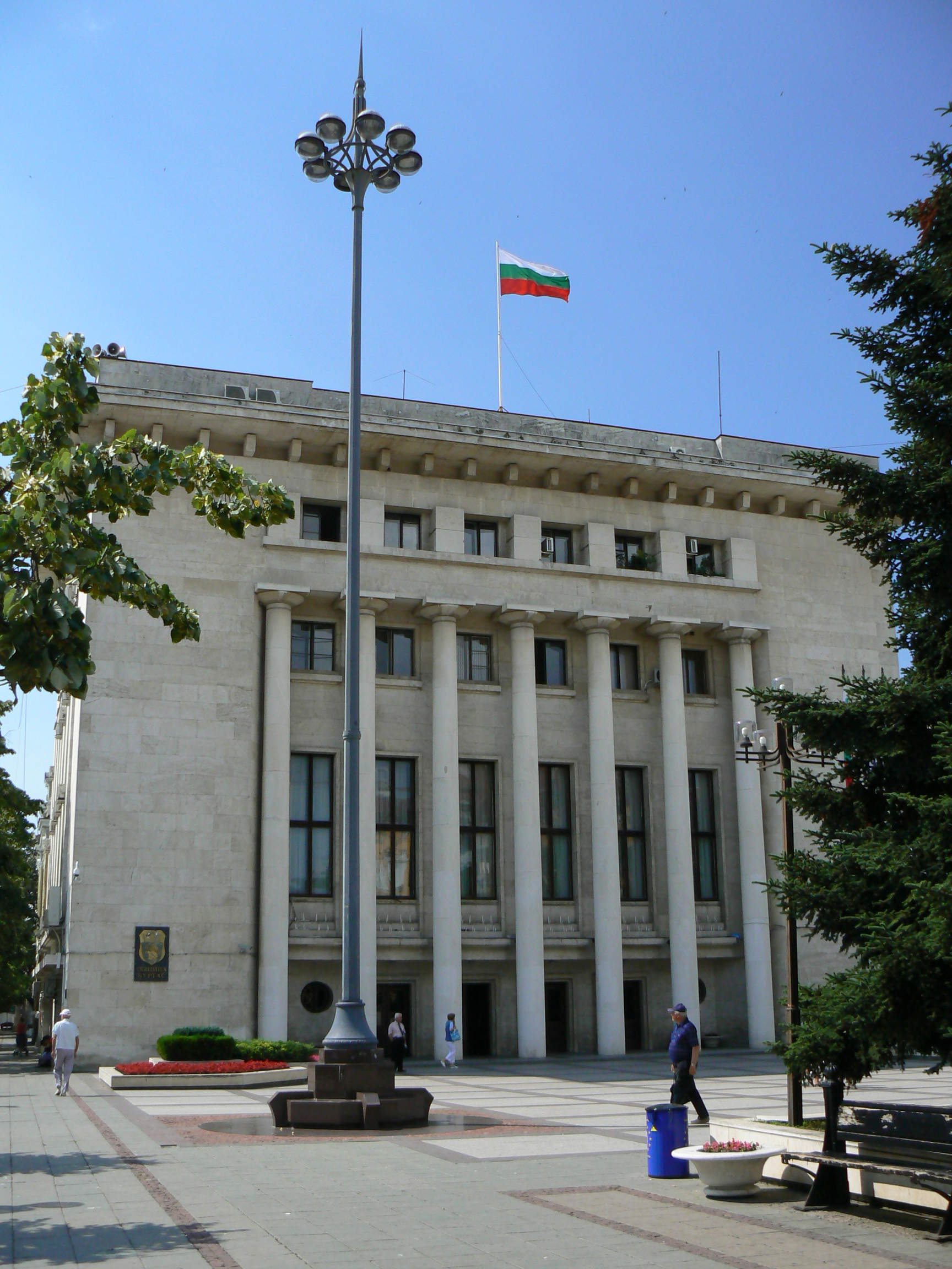 The building of Burgas municipality, Bulgaria